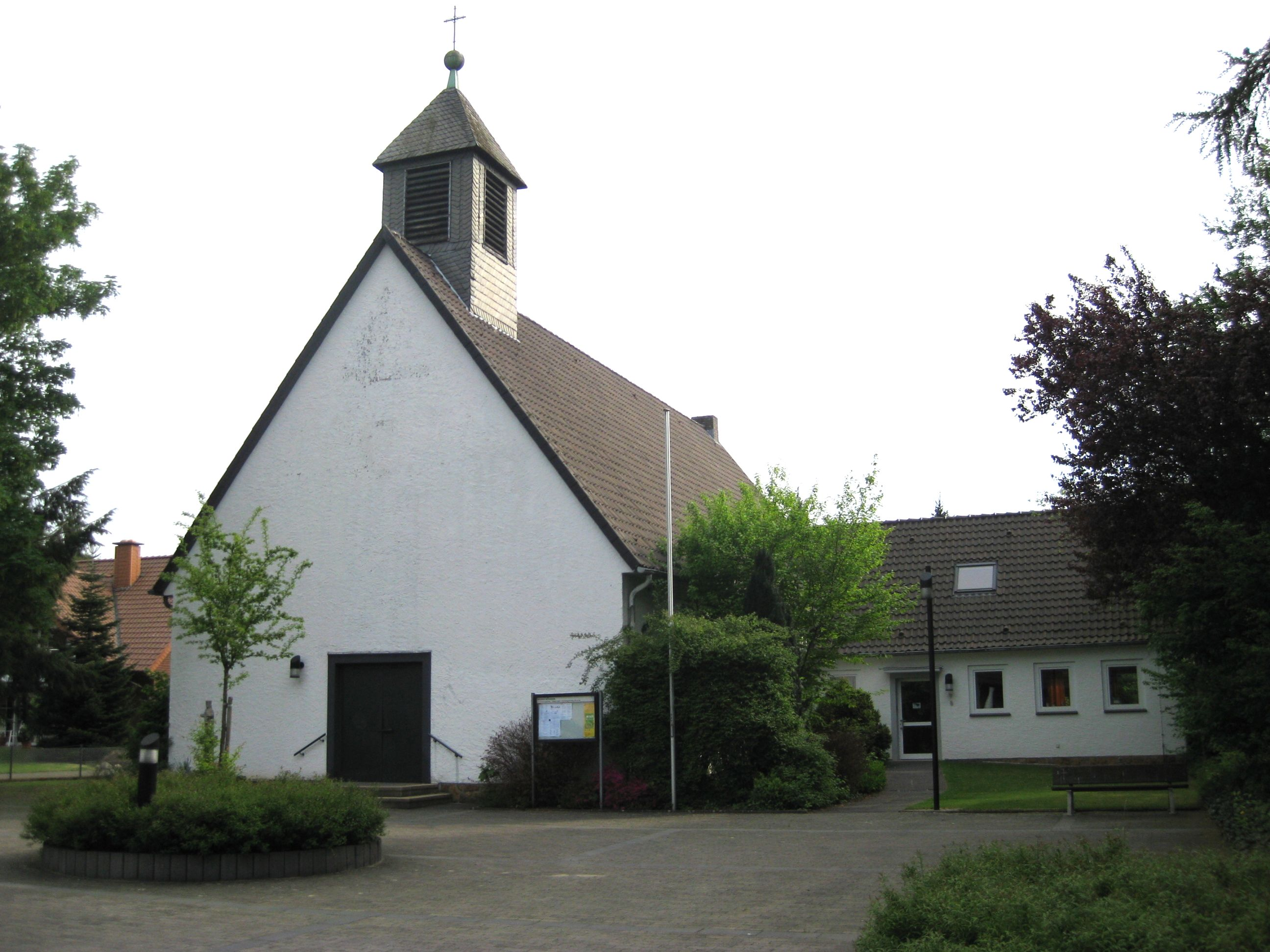 catholic parish church Maria Königin in Gütersloh-Isselhorst